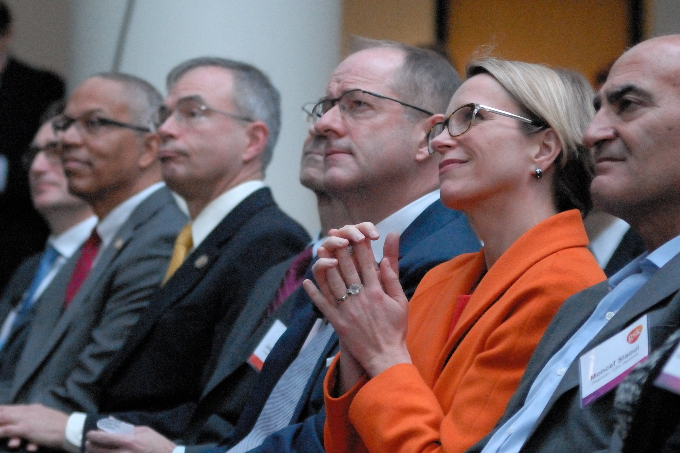 Lt. Governor Rutherford Participates In GlaxoSmithKline Ribbon Cutting Ceremony by Anthony DePanise at 14200 Shady Grove Rd Rockville MD 20850